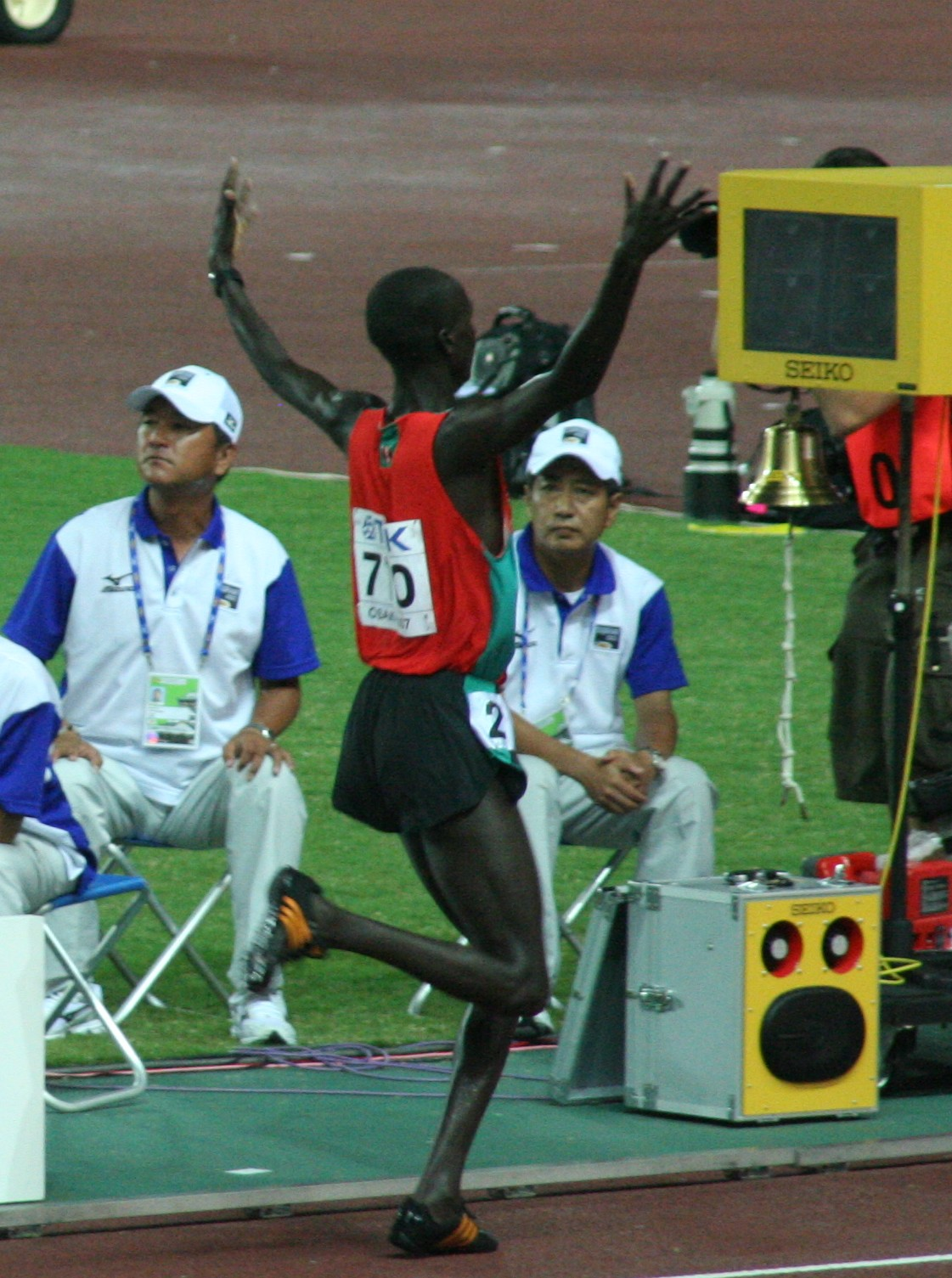 World Athletics Championships 2007 in Osaka - Men's 3000 metres steeplechase winner Brimin Kiprop Kipruto at the finishing line